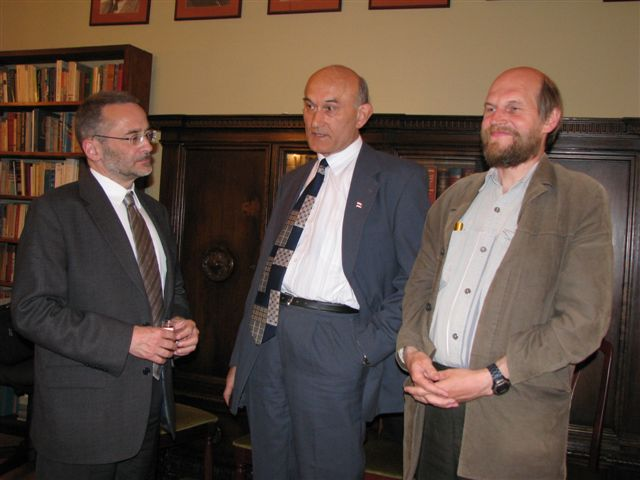 Adam Pomorski (b. 1956), Polish essayist and translator and Зянон Пазняк (Zianon Pazniak, b. 1944), Belarusian politician and public activist, and Лявон Баршчэўскі (Lawon Barszczeuski, b. 1958), Belarusian writer and public activist